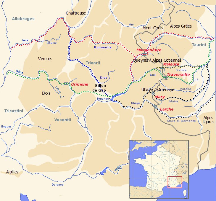 Hypothesis for Hannibal's way thru Alps (south passes) in 218BC.